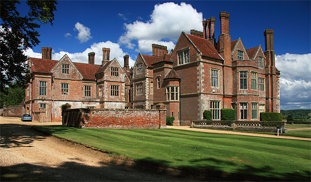 Breamore House, Hampshire, seen from the west